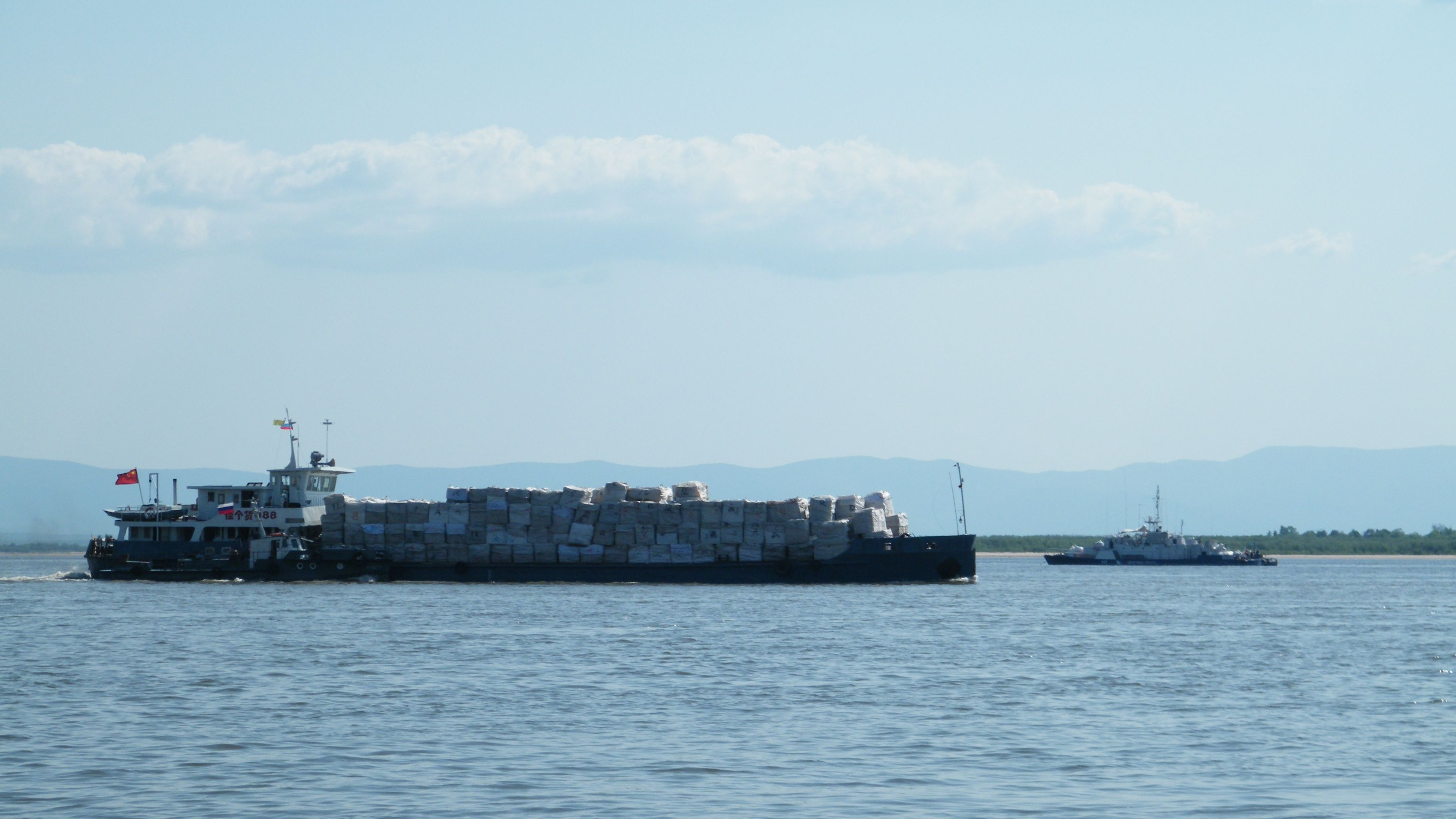 Китайский теплоход у Хабаровска